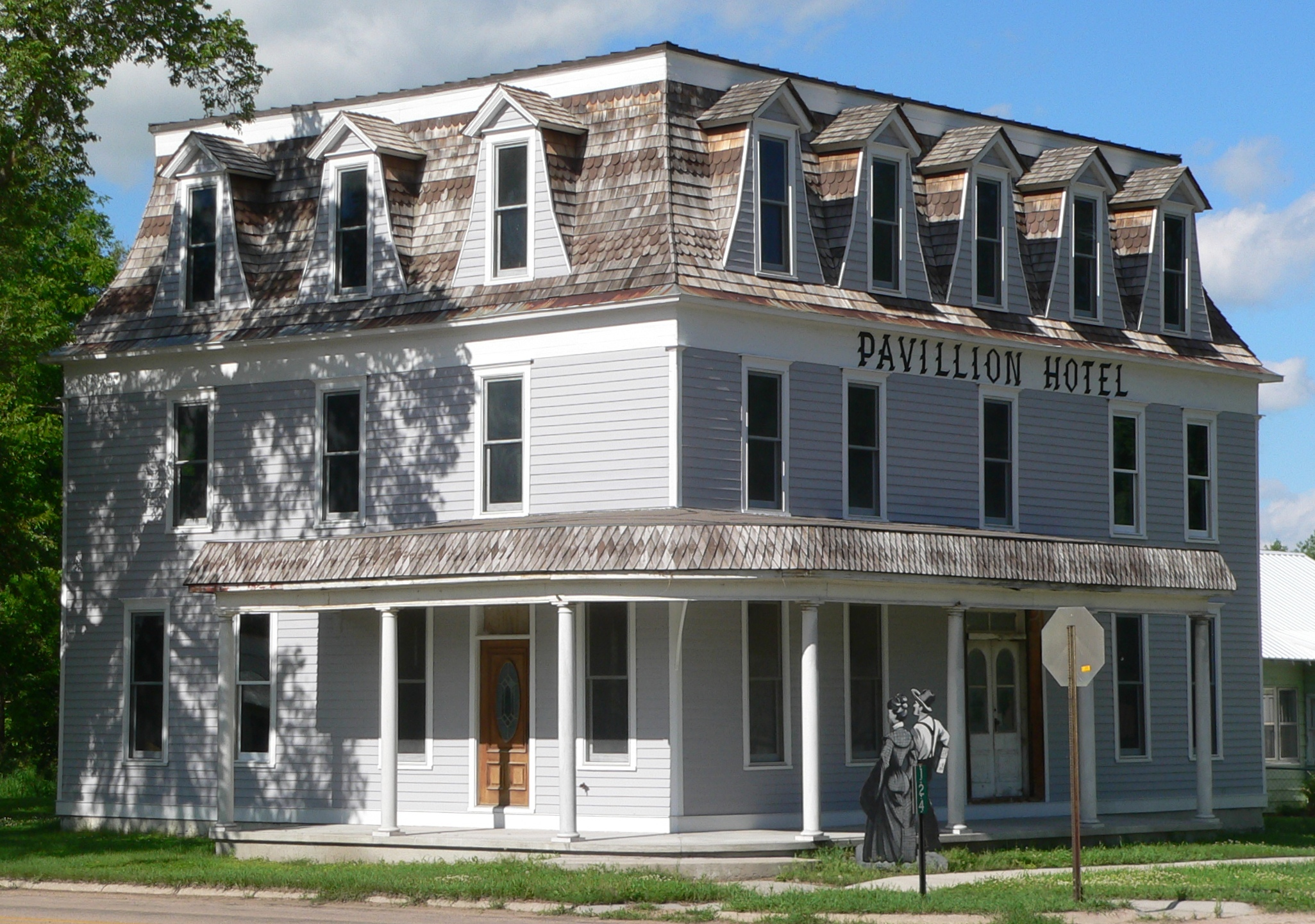 Pavillion Hotel in downtown Taylor, Nebraska; seen from the southwest. The building, designed in Second Empire style, was built in 1887. It is listed in the National Register of Historic Places. The figures at lower left are part of Taylor's "Villagers" project: a set of life-sized cutouts of people in period clothing, located at various sites of interest in the town.